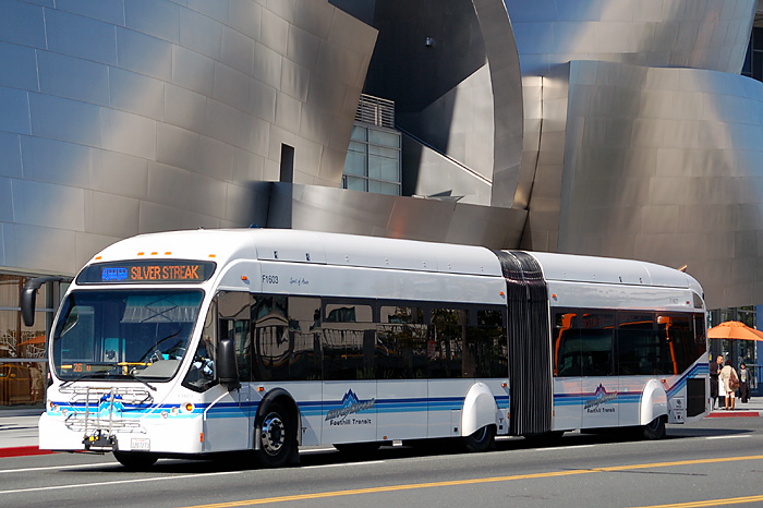 A NABI 60-BRT articulated bus owned and operated by Foothill Transit, seen in Downtown Los Angeles, California, USA.